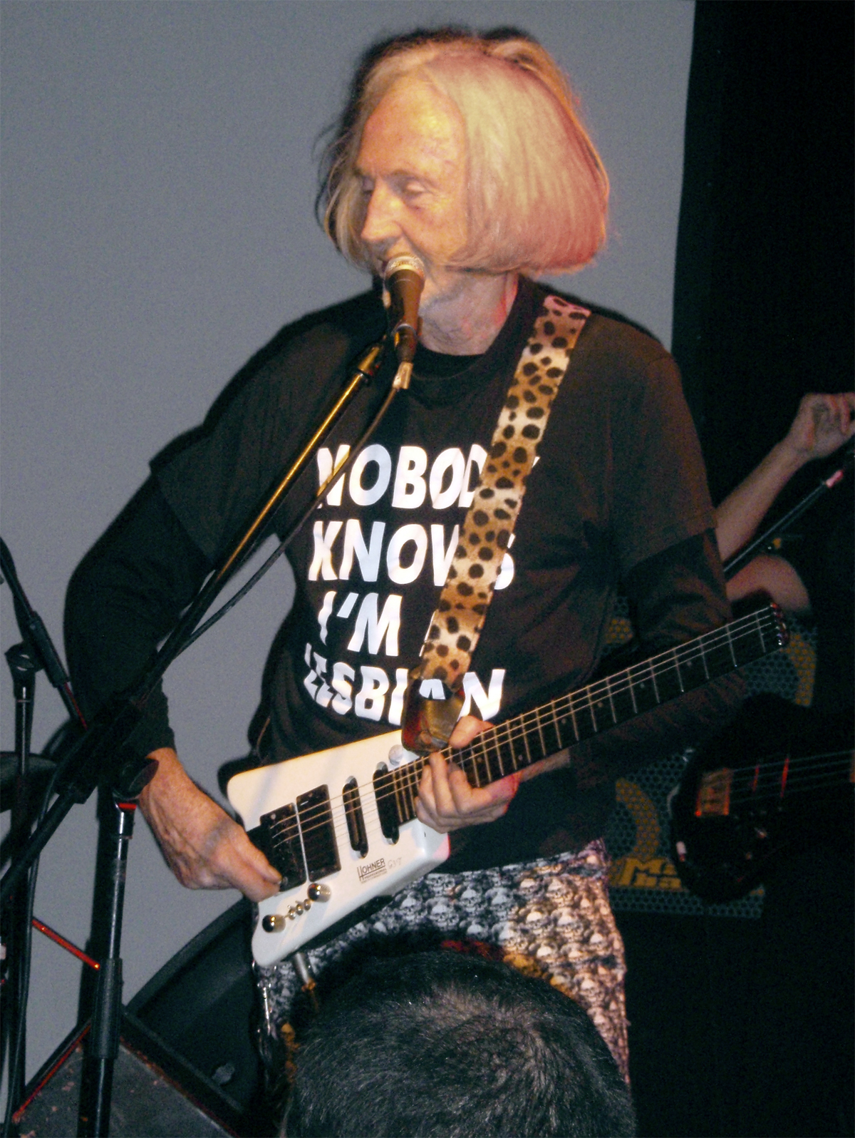 Gong, playing live in the Zappa club in Tel-Aviv. The 2032 tour.